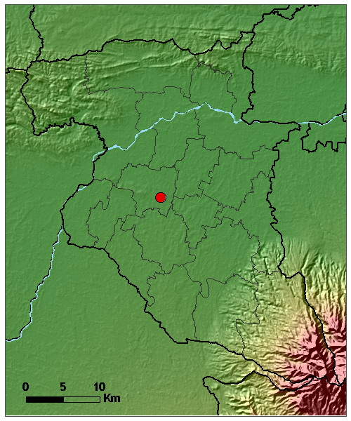 the topographic map of Jombang Regency, East Java, Indonesia